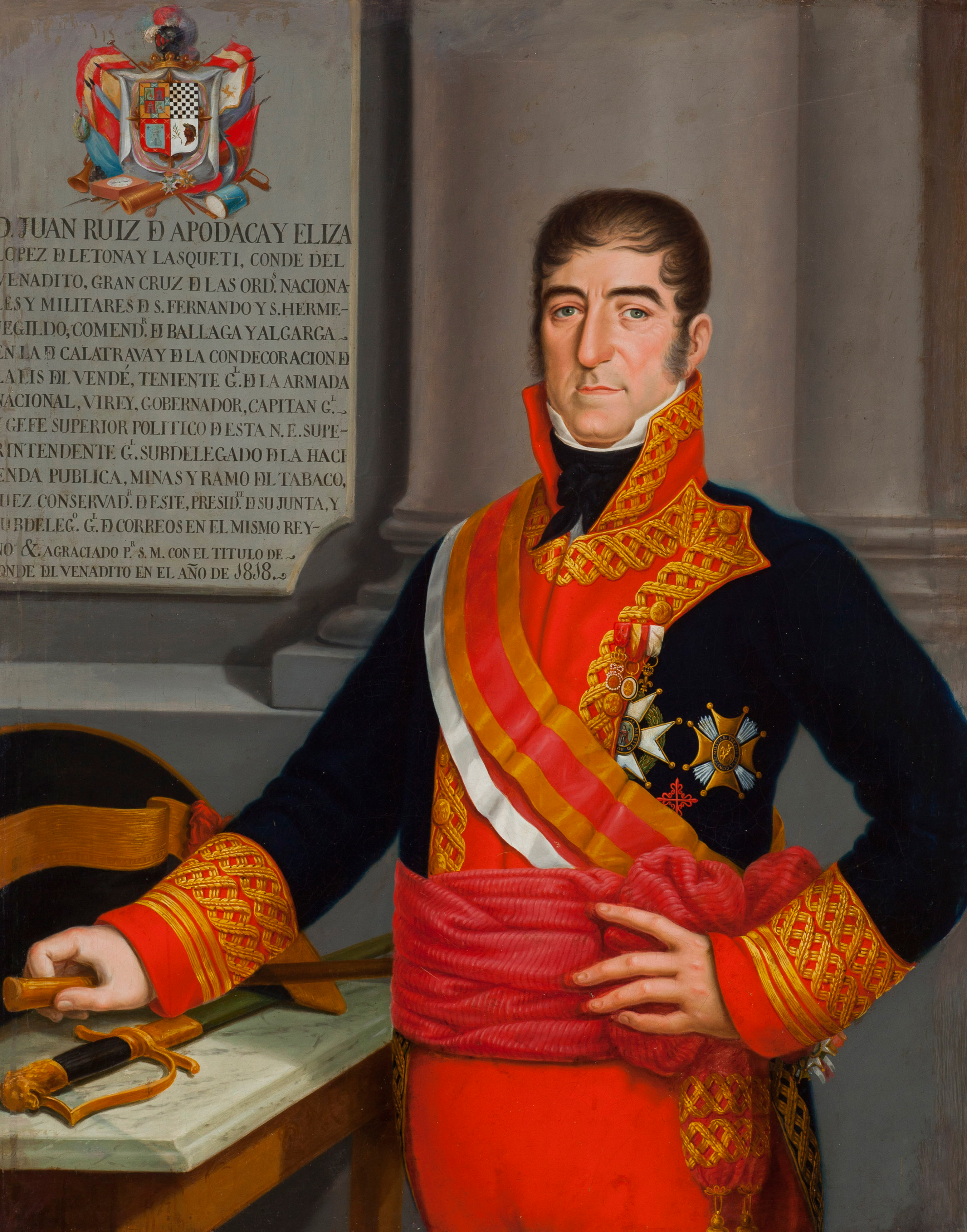 Portrait of the viceroy of New Spain, Juan Ruiz de Apodaca y Eliza, 1st Count of Venadito